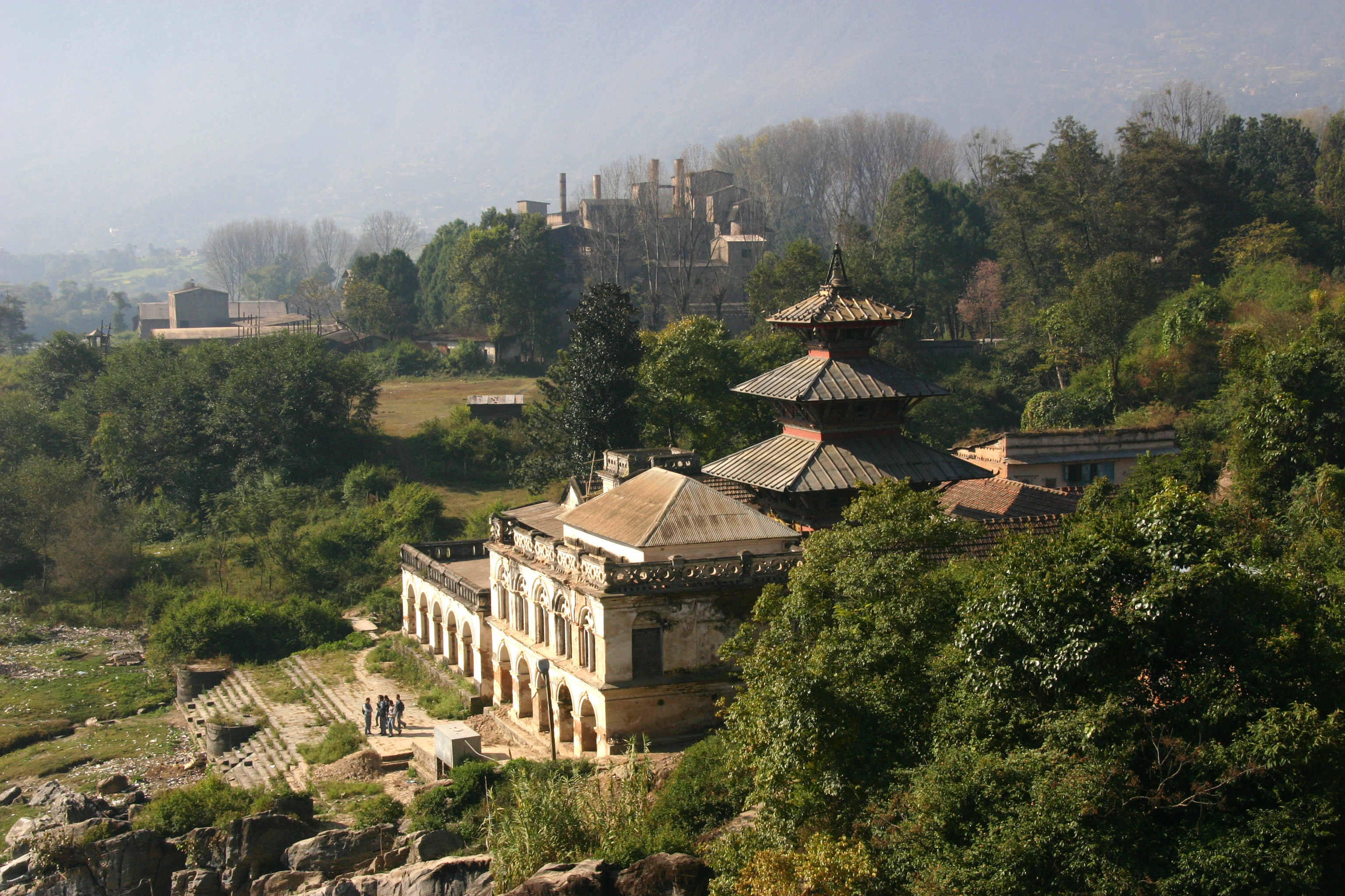 Jalbinayak Temple in Chobhar in Nepal